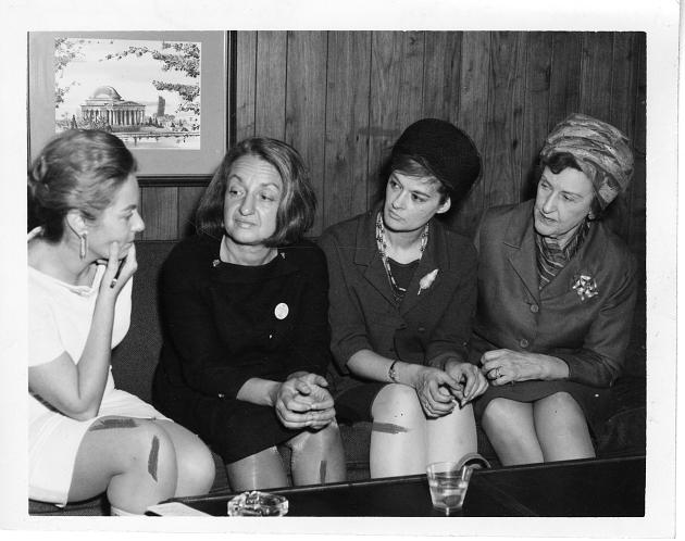 Billington; National Organization for Women (NOW) founder and president Betty Naomi Goldstein Friedan (1921-2006); NOW co-chair and Washington, D.C., lobbyist Barbara Ireton (1932-1998); and feminist attorney Marguerite Rawalt (1895-1989). Rawalt was an attorney with the Internal Revenue Service, a former president of the Federal Bar Association, and a tireless advocate for women's rights